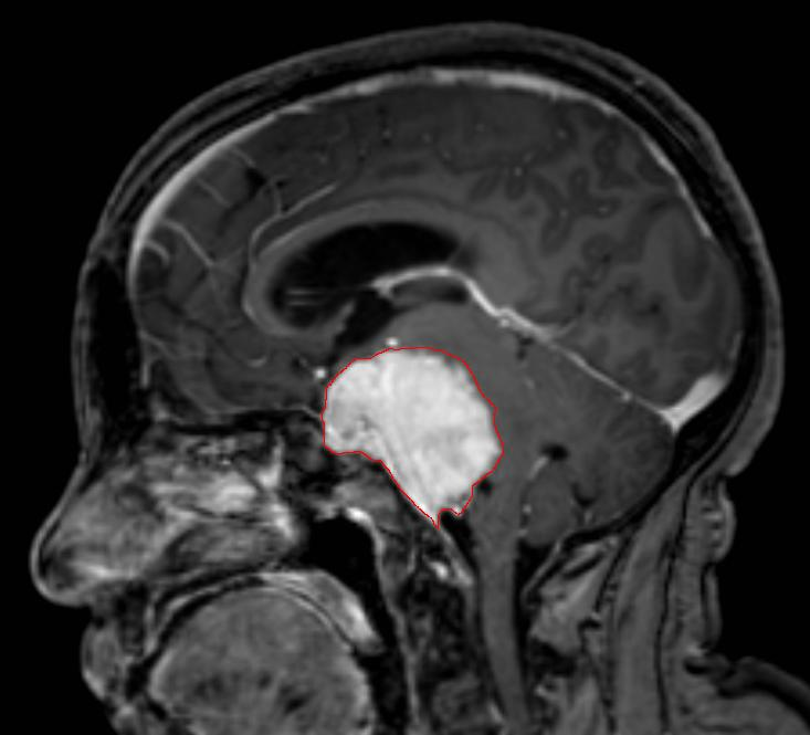 Meningioma, MRI T1 with contrast, sagittal